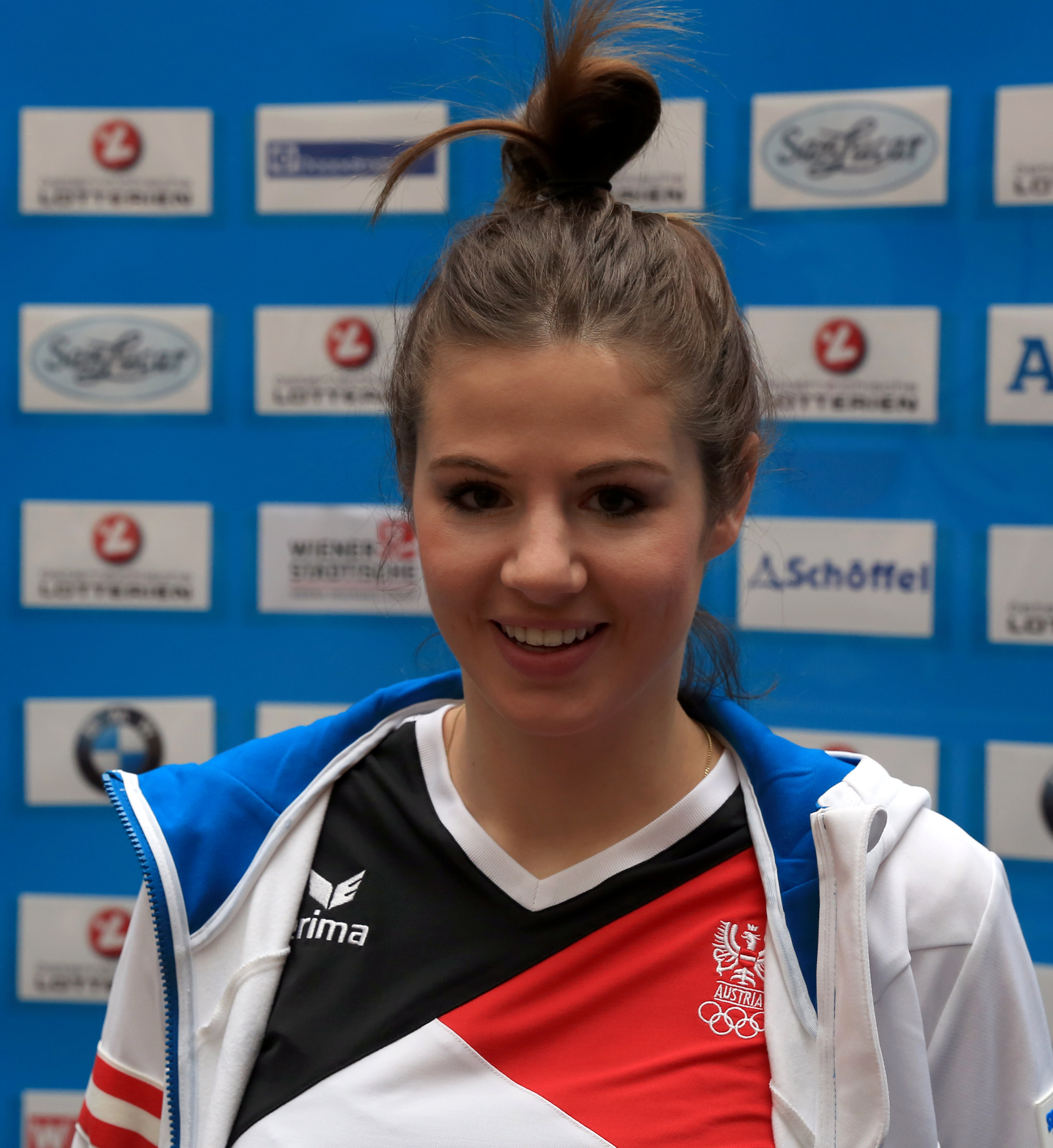 Susanne Moll (snowboard cross) at the outfitting of the Austrian team for the 2014 Winter Olympics (Hotel Marriott in Vienna, Austria.